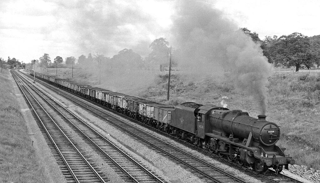 A long Down coal train south of Haresfield. View northward, towards Gloucester etc. (For route details see my related images near here, e.g. SO8110 : Sheffield to Paignton express near Haresfield). This train is probably a Washwood Heath (Birmingham) to Westerleigh Sidings (Bristol) - i.e. Midland line - working so will cross to the nearer (MIdland) tracks at Standish Junction. The locomotive is Stanier 8F 2-8-0 No. 48220.